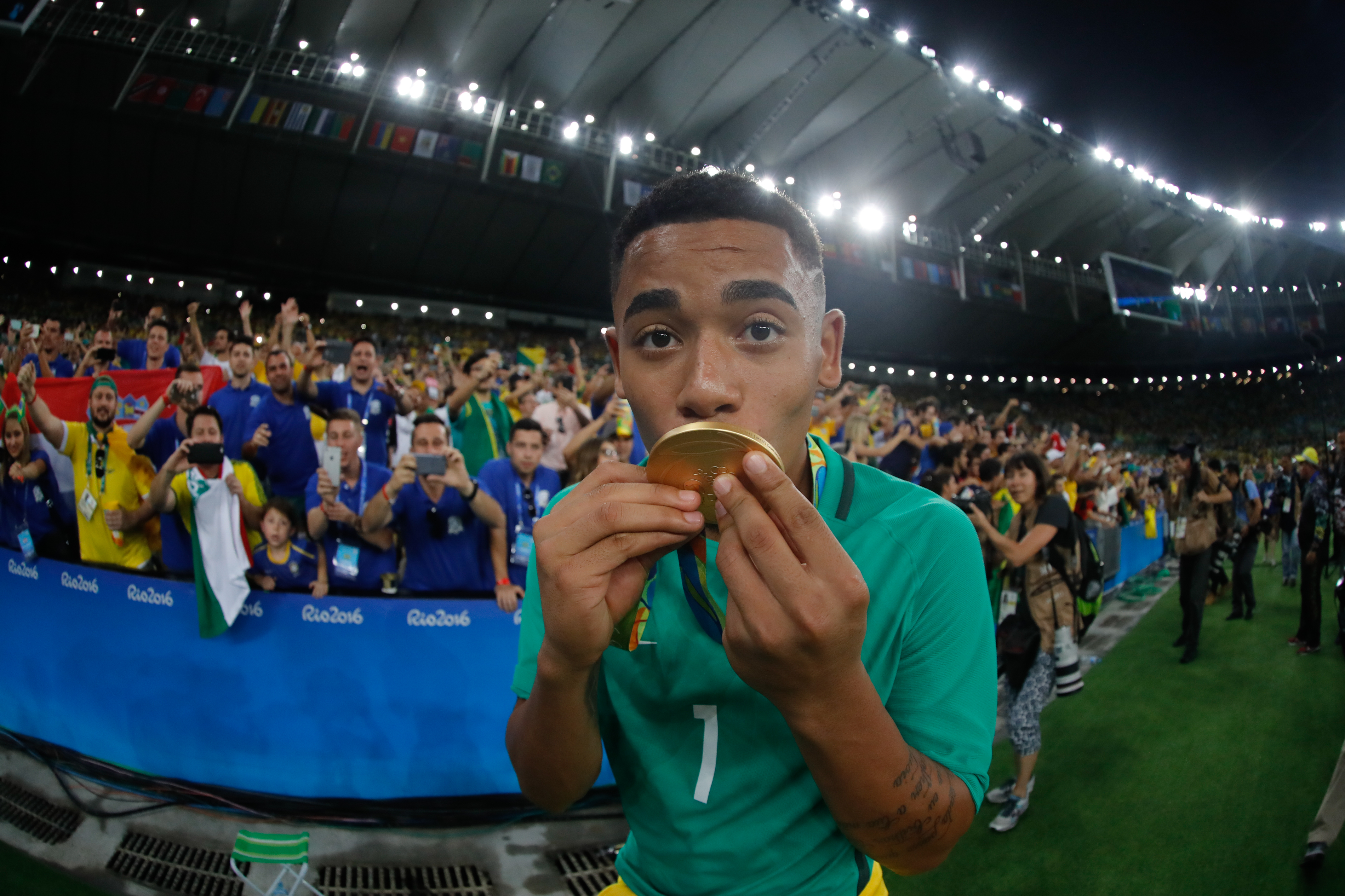 Rio de Janeiro - Brasil vence Alemanha e conquista primeiro ouro olímpico do futebol (Fernando Frazão/Agência Brasil)